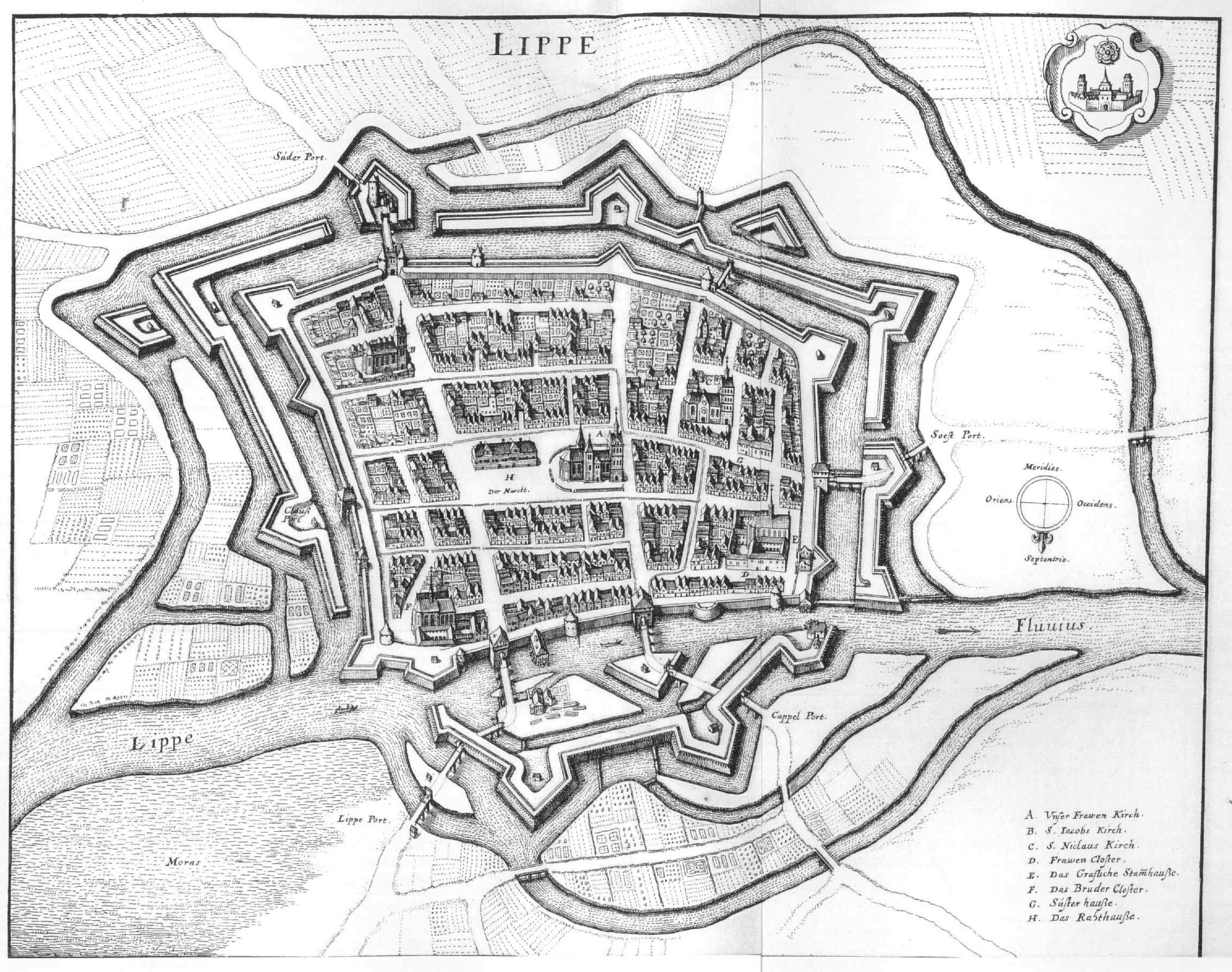 This is a scan of the historical document